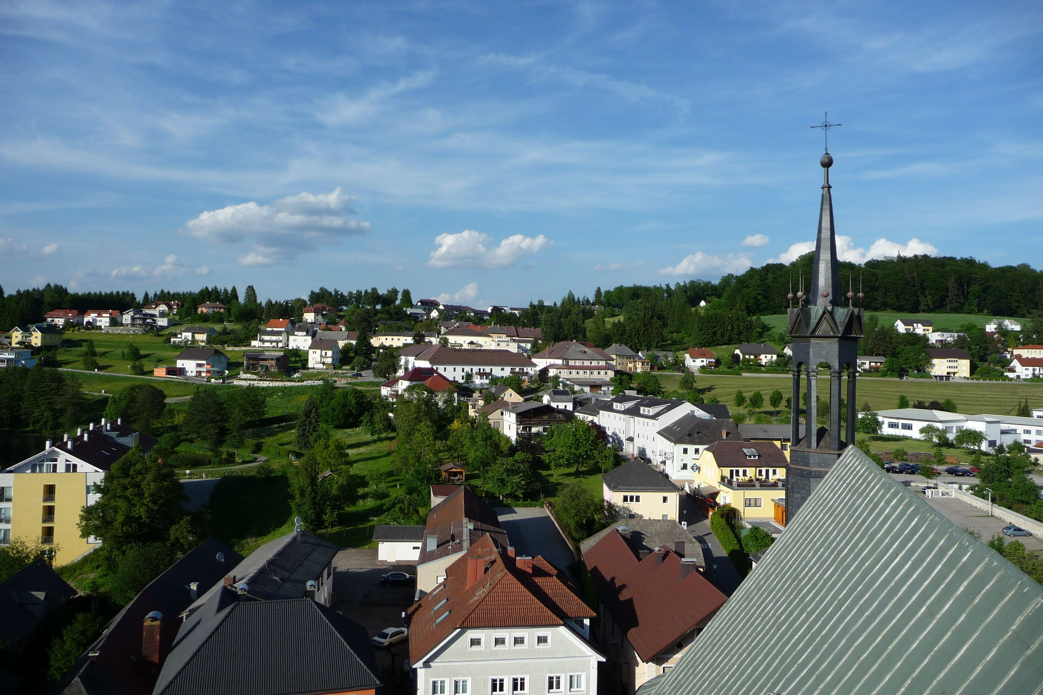 View from Church Tower to North